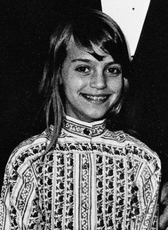 Jennifer Grant, Century Plaza Hotel - President's Suite